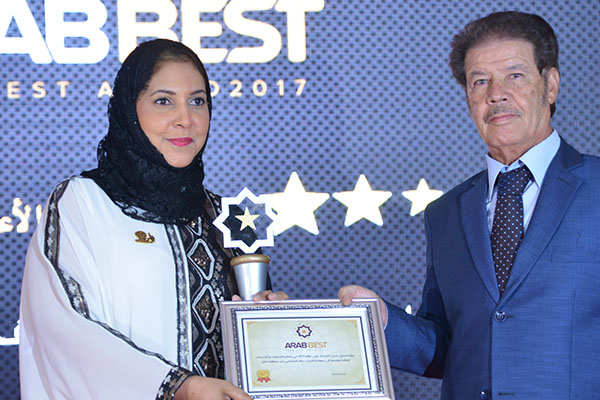 أفضل مائة رئيس تنفيذي عربي لعام 2017